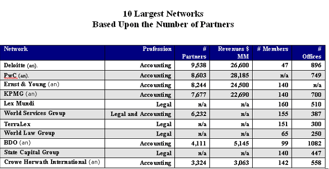 From Professional Services Network - Stephen McGarry - Permission granted by author to use.